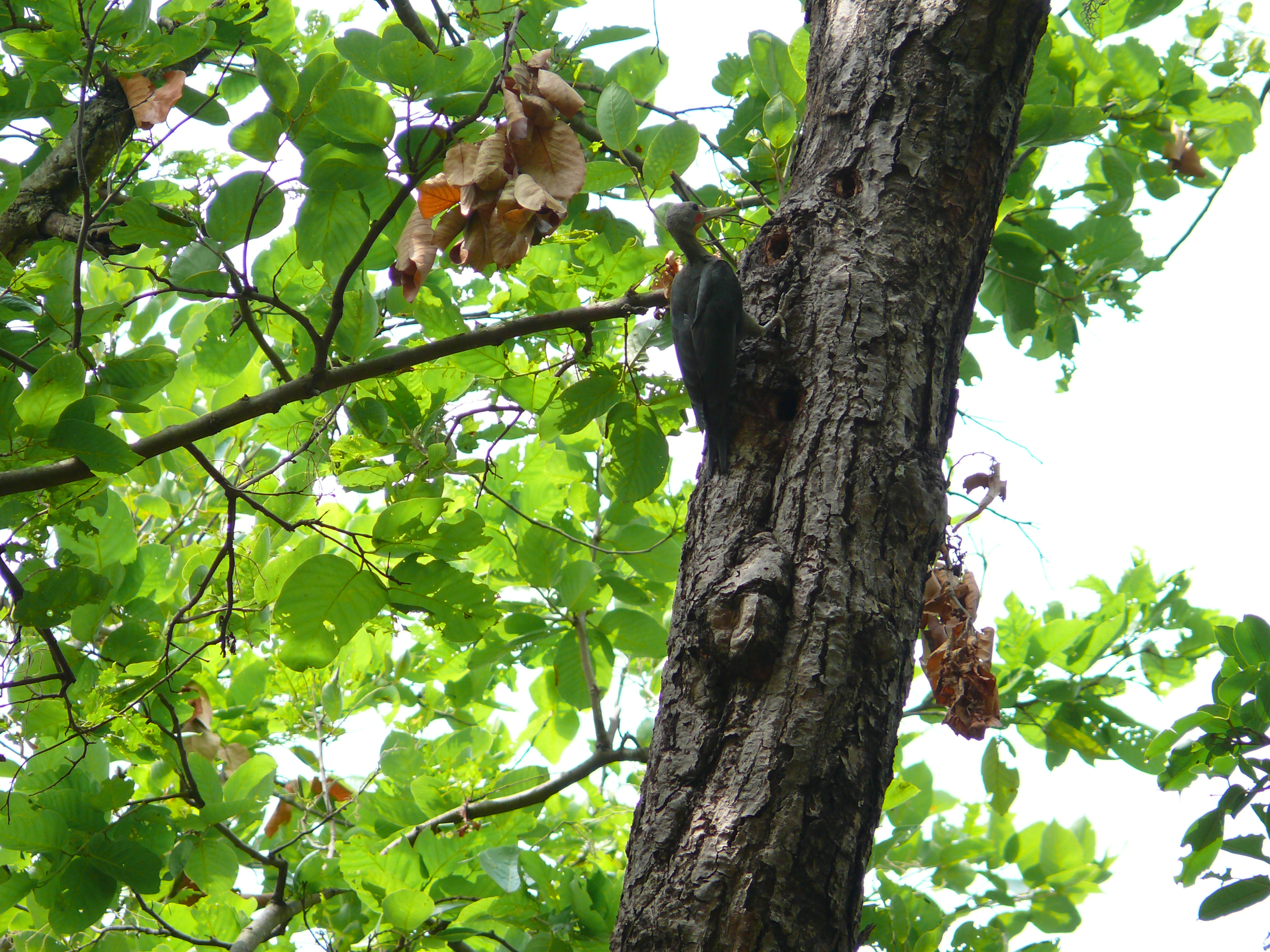 Great Slaty Woodpecker - Mulleripicus pulverulentus